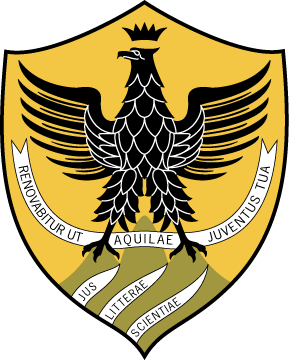 Logo of the University of L'Aquila